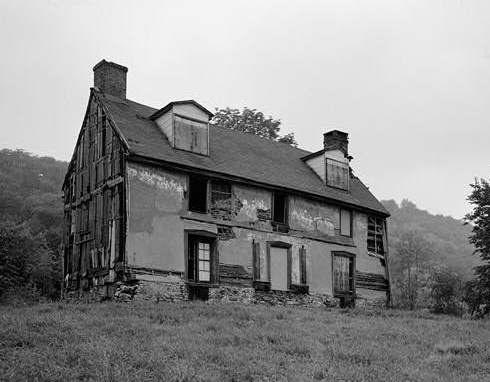 John Haskell House, Windsor Highway (Route 32), New Windsor (Orange County, New York) cropped This file comes from the Historic American Buildings Survey (HABS), Historic American Engineering Record (HAER) or Historic American Landscapes Survey (HALS). These are programs of the National Park Service established for the purpose of documenting historic places. Records consist of measured drawings, archival photographs, and written reports. When reusing please credit: Library of Congress, Prints & Photographs Division, NY,36-NEWI,1-1 This tag does not indicate the copyright status of the attached work. A normal copyright tag is still required. See Commons:Licensing. This work is in the public domain in the United States because it is a work prepared by an officer or employee of the United States Government as part of that person’s official duties under the terms of Title 17, Chapter 1, Section 105 of the US Code. Note: This only applies to original works of the Federal Government and not to the work of any individual U.S. state, territory, commonwealth, county, municipality, or any other subdivision. This template also does not apply to postage stamp designs published by the United States Postal Service since 1978. (See § 313.6(C)(1) of Compendium of U.S. Copyright Office Practices). It also does not apply to certain US coins; see The US Mint Terms of Use. This file has been identified as being free of known restrictions under copyright law, including all related and neighboring rights. Object location41° 28′ 50″ N, 74° 02′ 33″ W